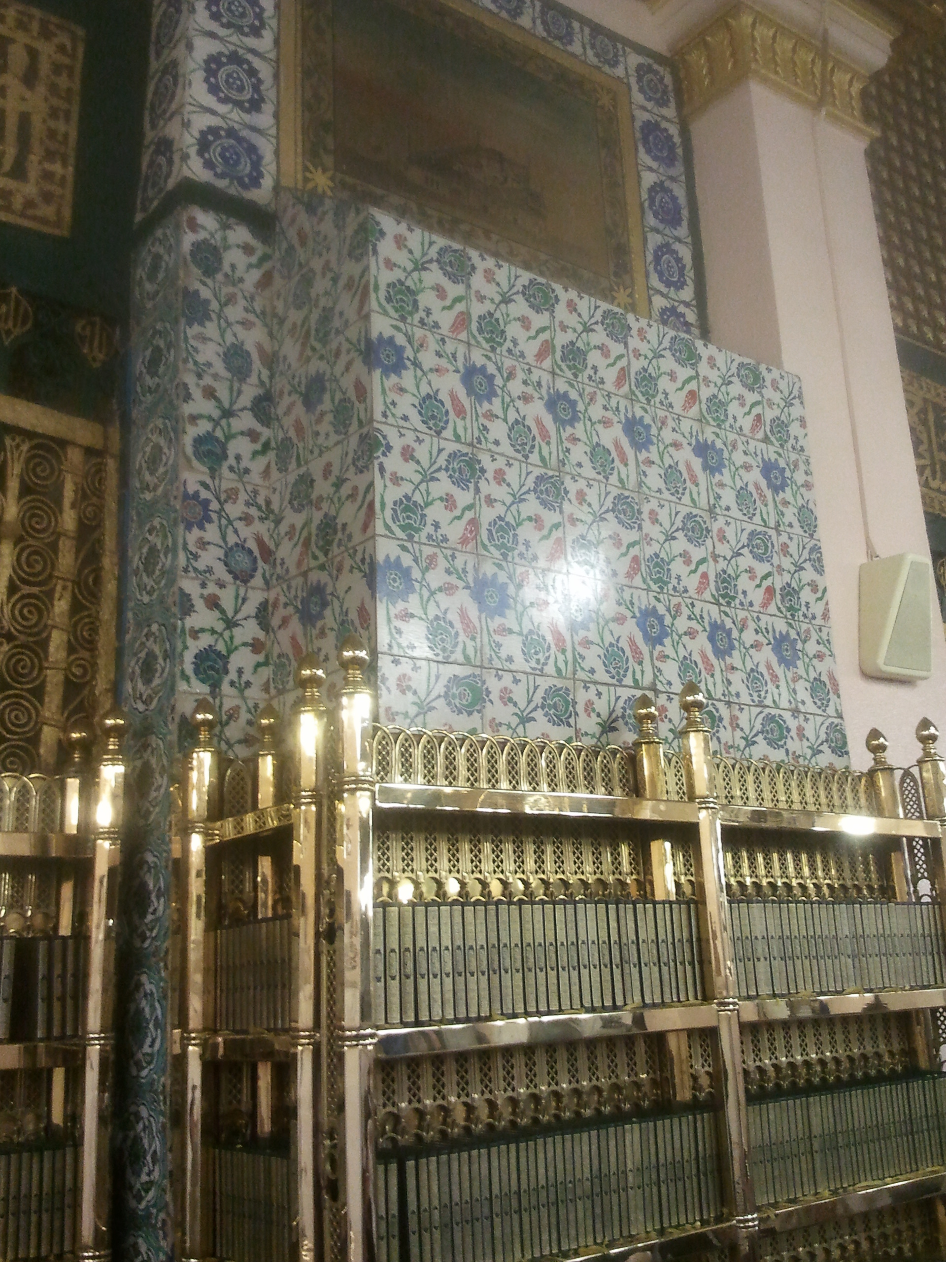 Tahajjod Mihrab at al-Masjid al-Nabawi